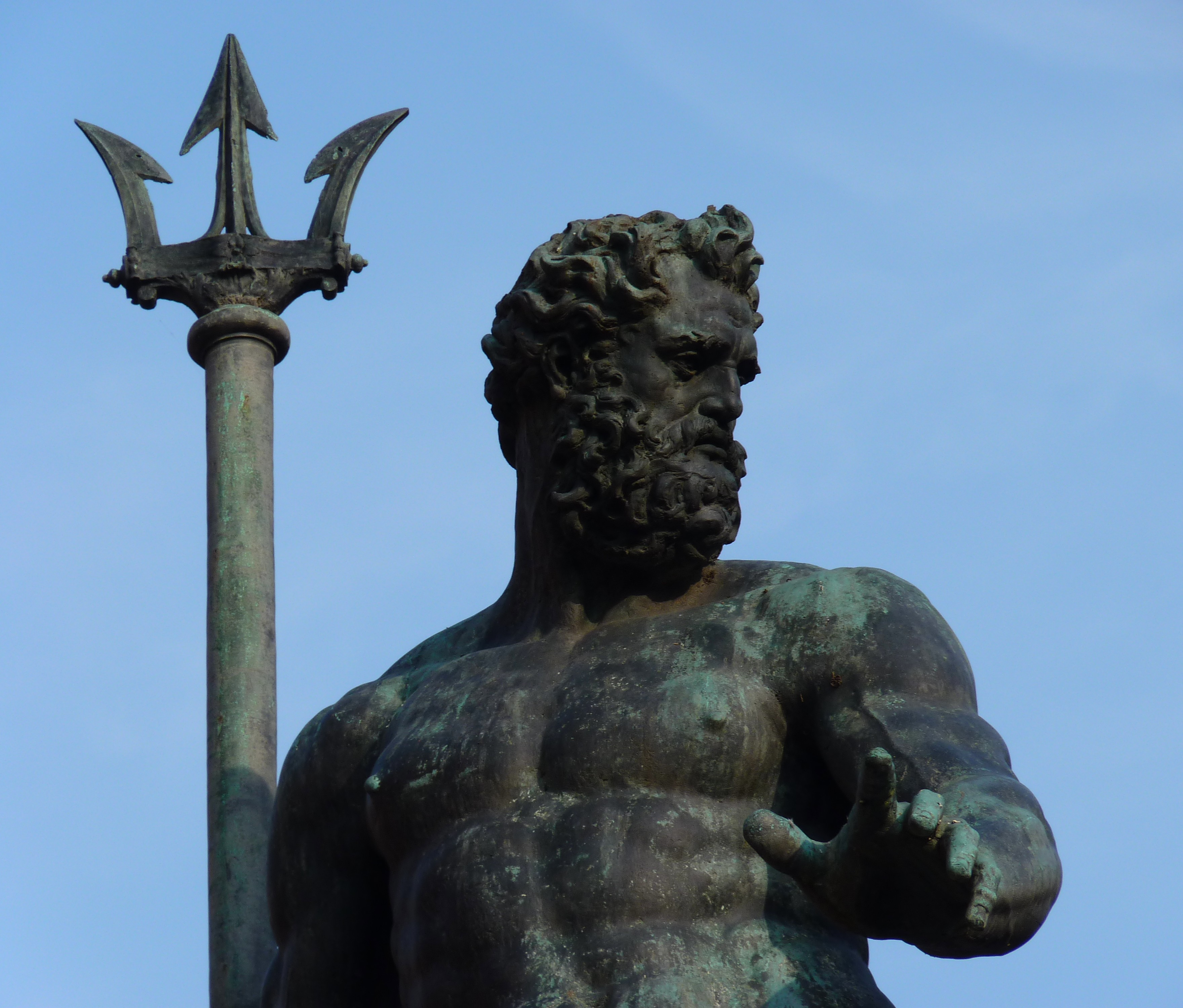 The Fountain of Neptune (Italian: Fontana di Nettuno) is a monumental civic fountain located in the eponymous square, Piazza del Nettuno, next to Piazza Maggiore, in Bologna, Italy. The bronze figure of Neptune, extending his reach in a lordly gesture of stilling and controlling the waters, was completed around 1567 and was an early work by Giambologna.